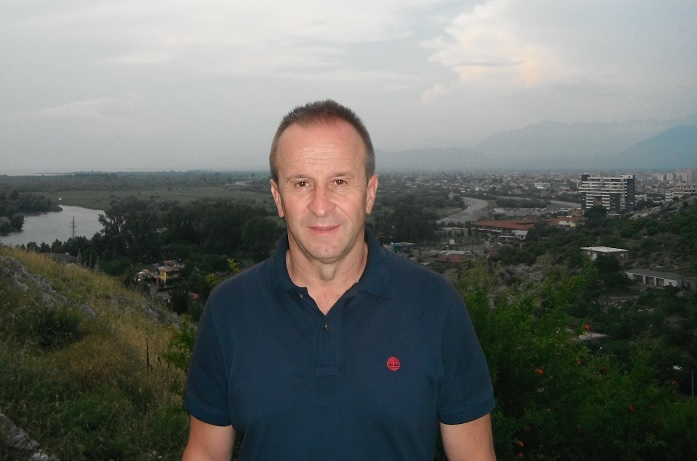 Dragan Djokanovic in Skadar, Albania